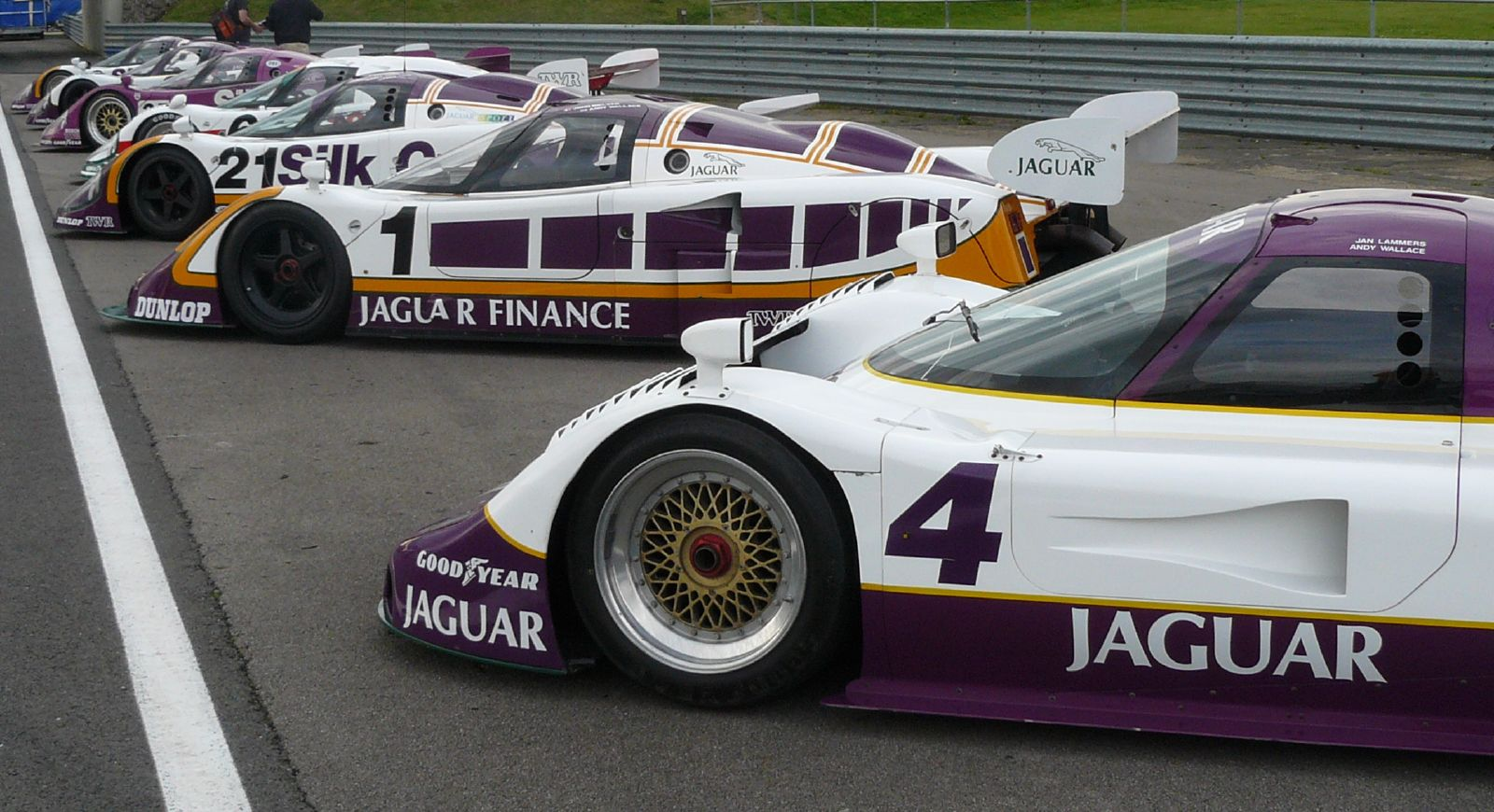 A group of Jaguar XJR sports cars at the Silverstone Classic